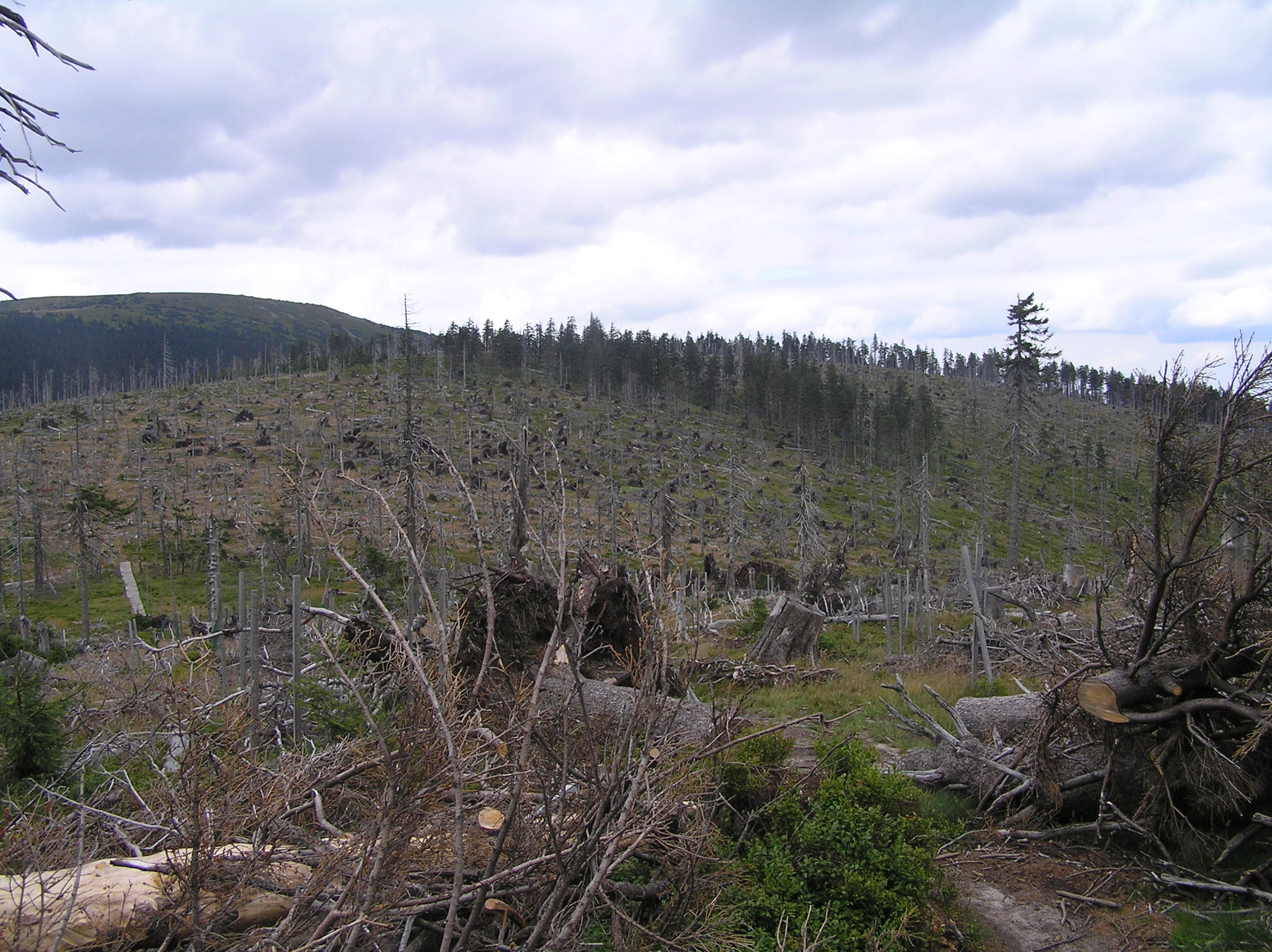 Stříbrnická (1250 m) is the mountain near the the town Králíky, the Králický Sněžník Mountains, Czech Republic